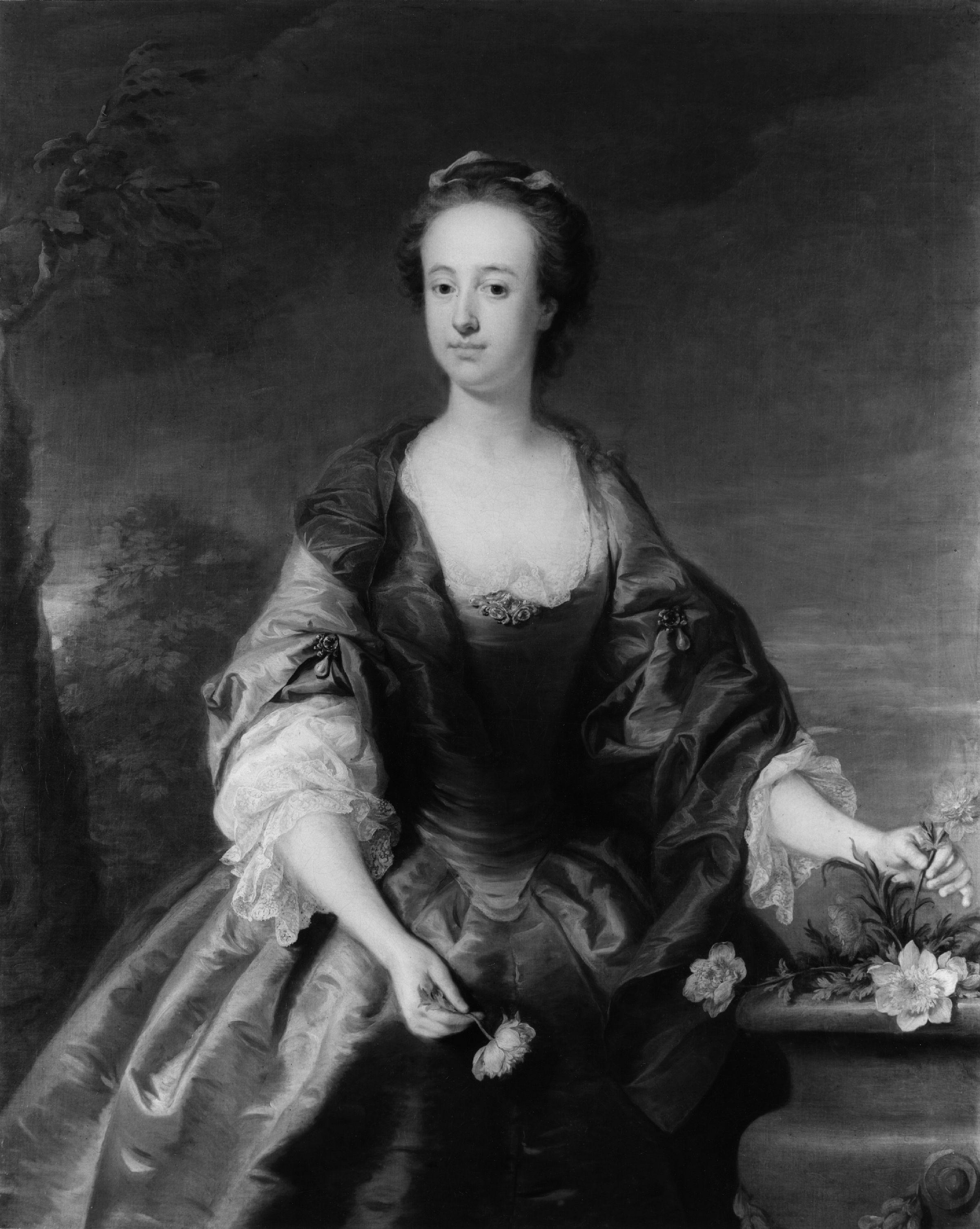 All images in this batch have been confirmed as author died before 1939 according to the official death date listed by the NPG.